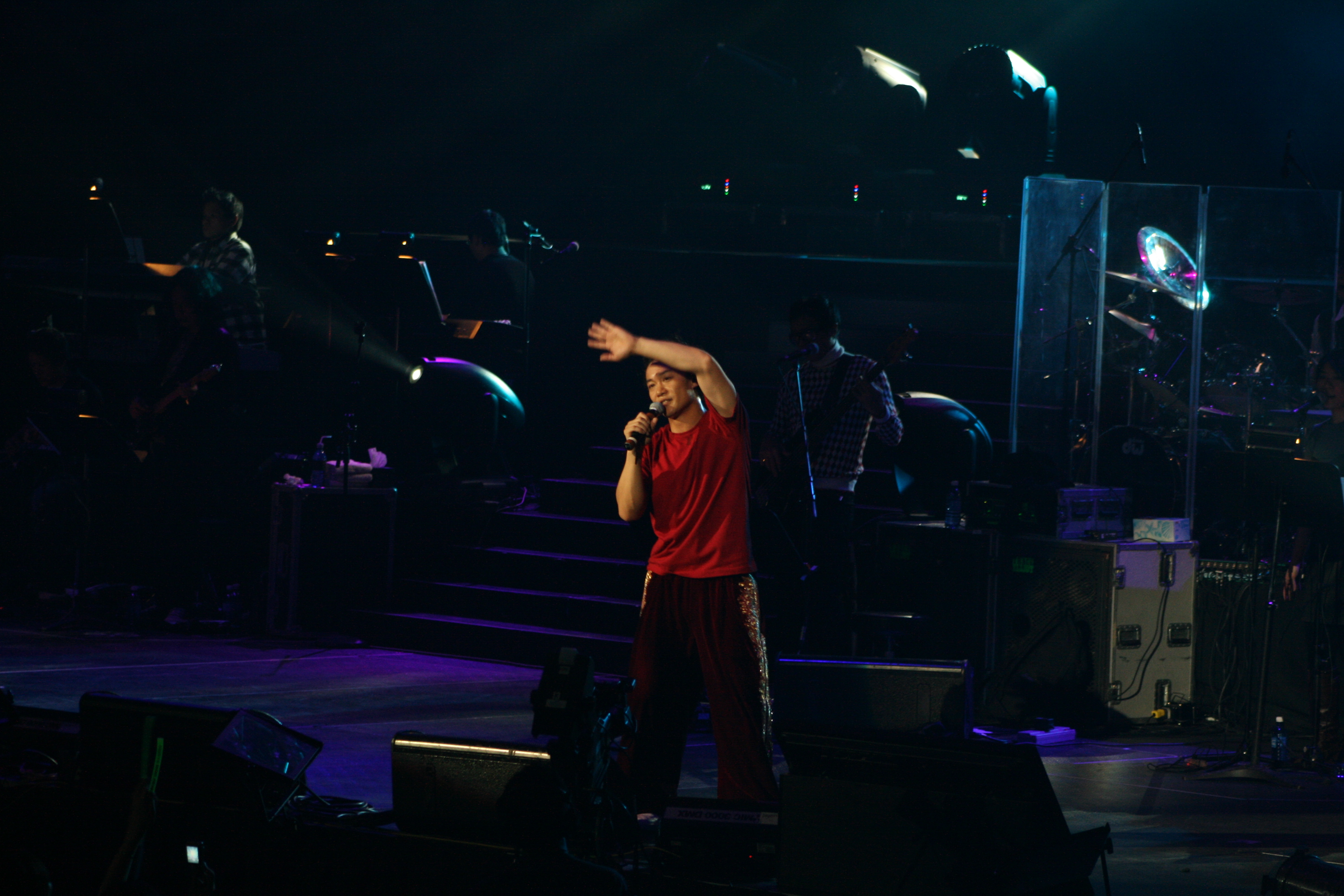 Eason Chan 2008